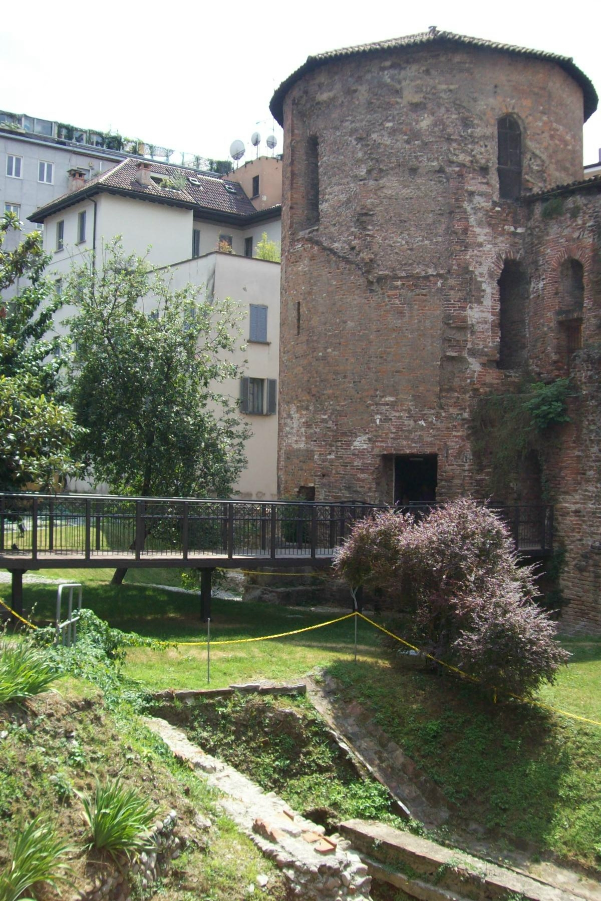 Torre poligonale museo archeologico di milano - the polygonal tower in the Civico Museo Archeologico of Milan